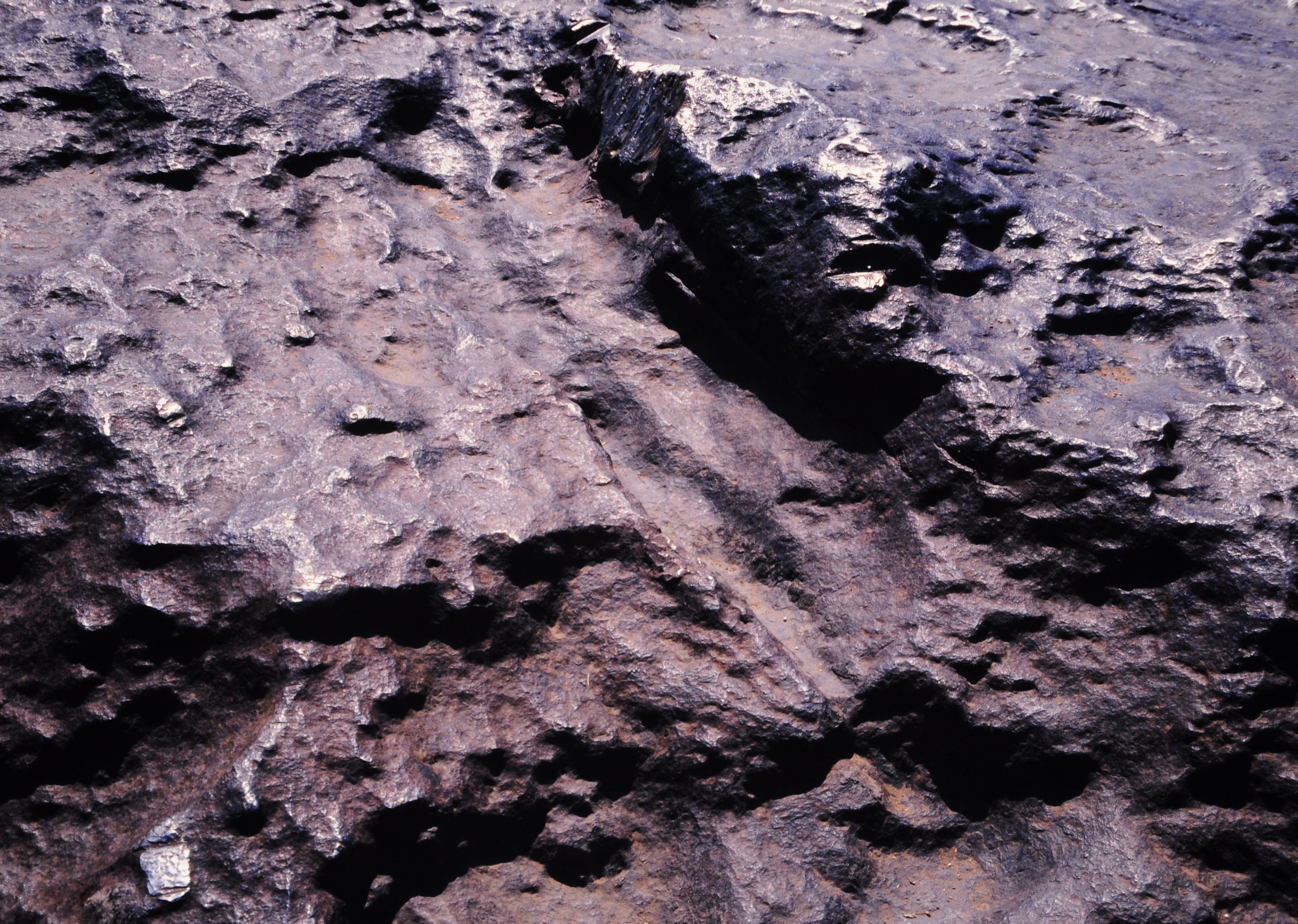 Hoba meteorite, detail of its surface.